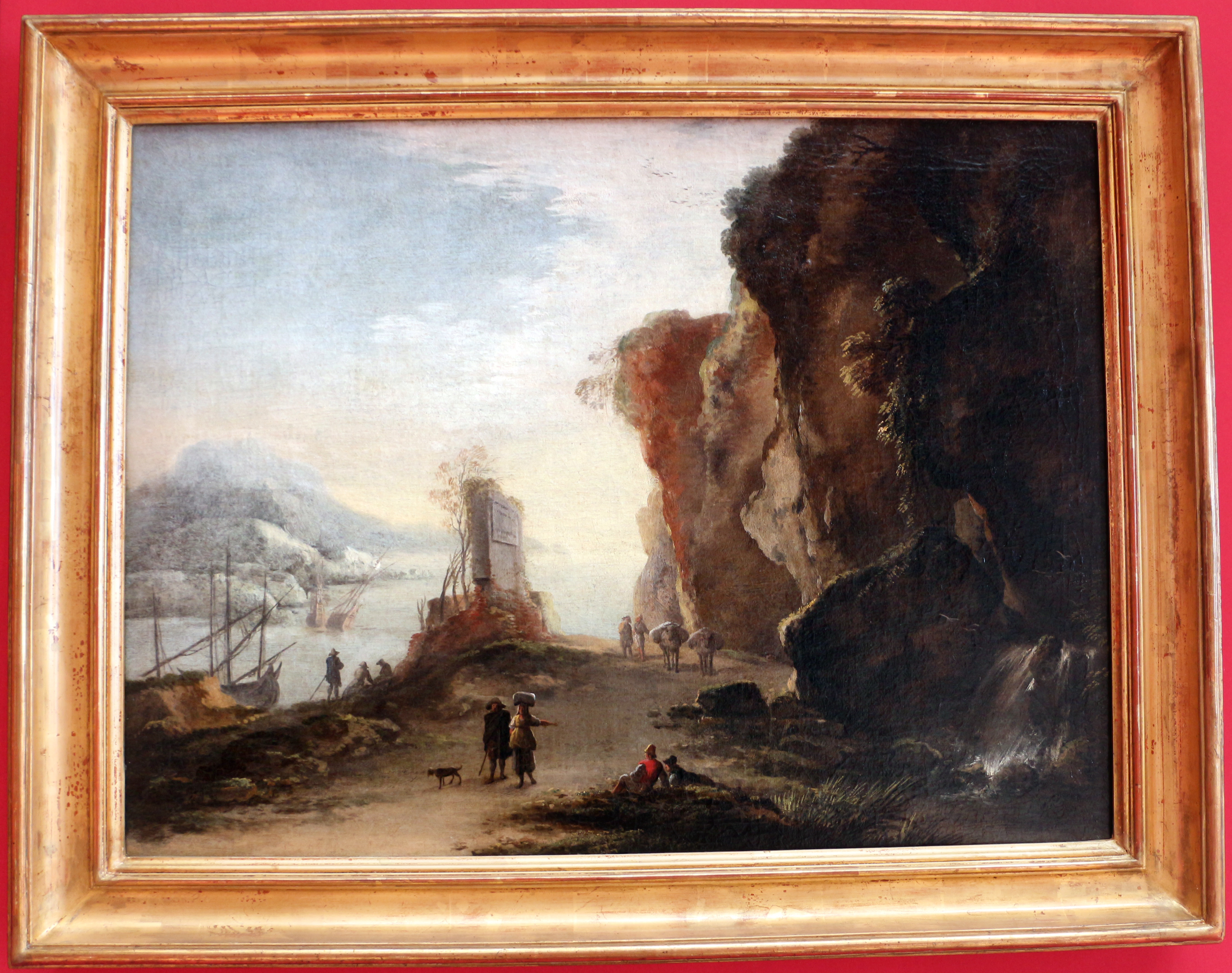 Accademia di San Luca - Gallery